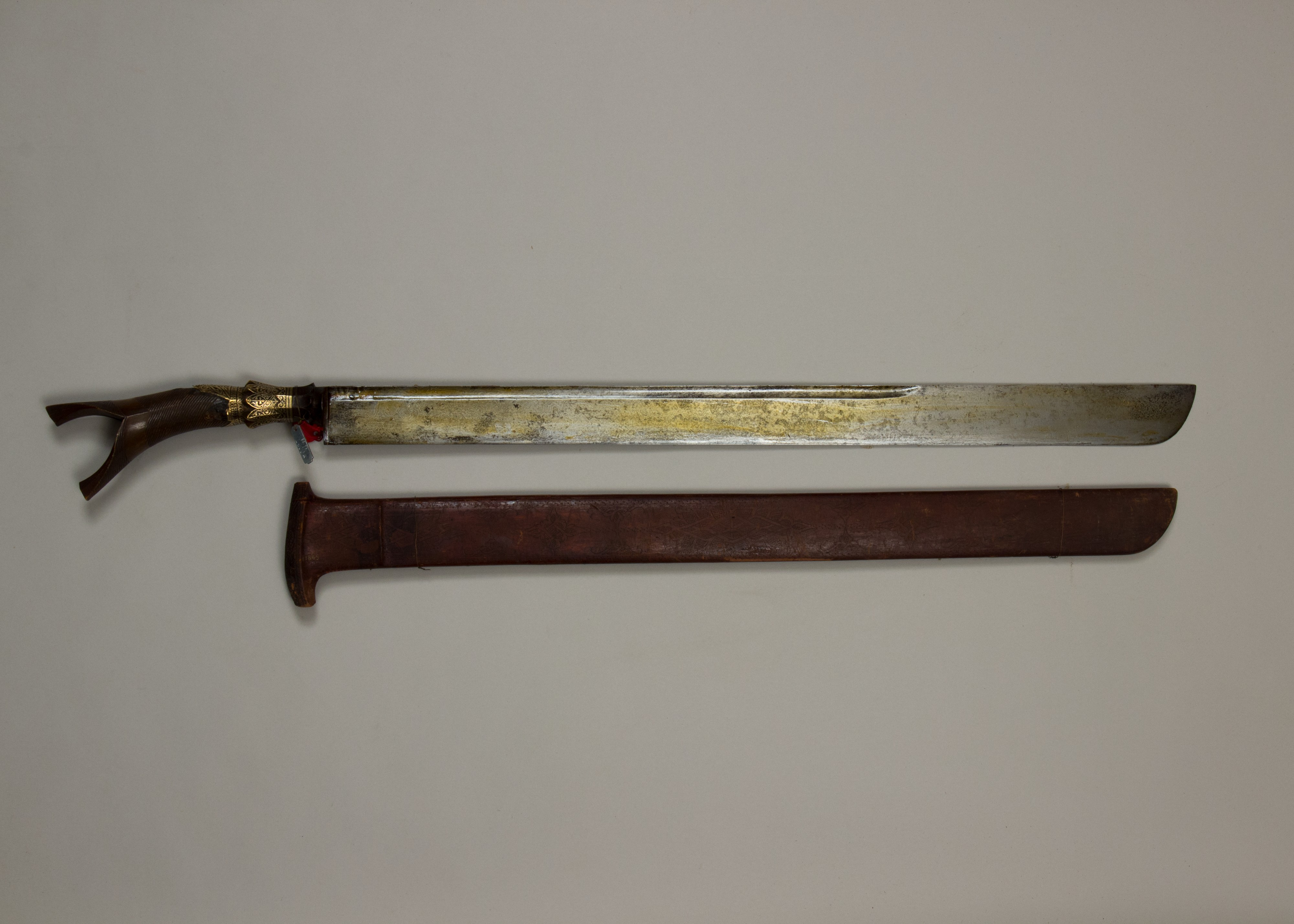 Acheen; Sword with scabbard; Swords